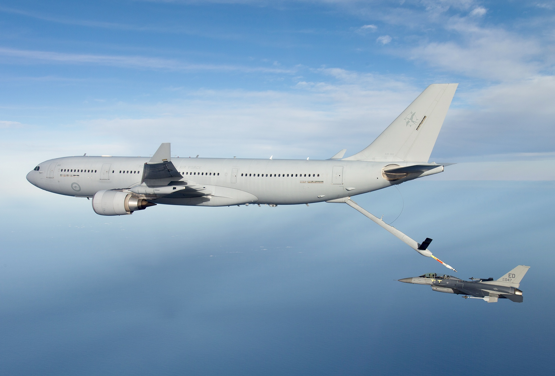 Royal Australian Air Force KC-30 A39-002 refuelling an USAF F-16 during a trial in 2015